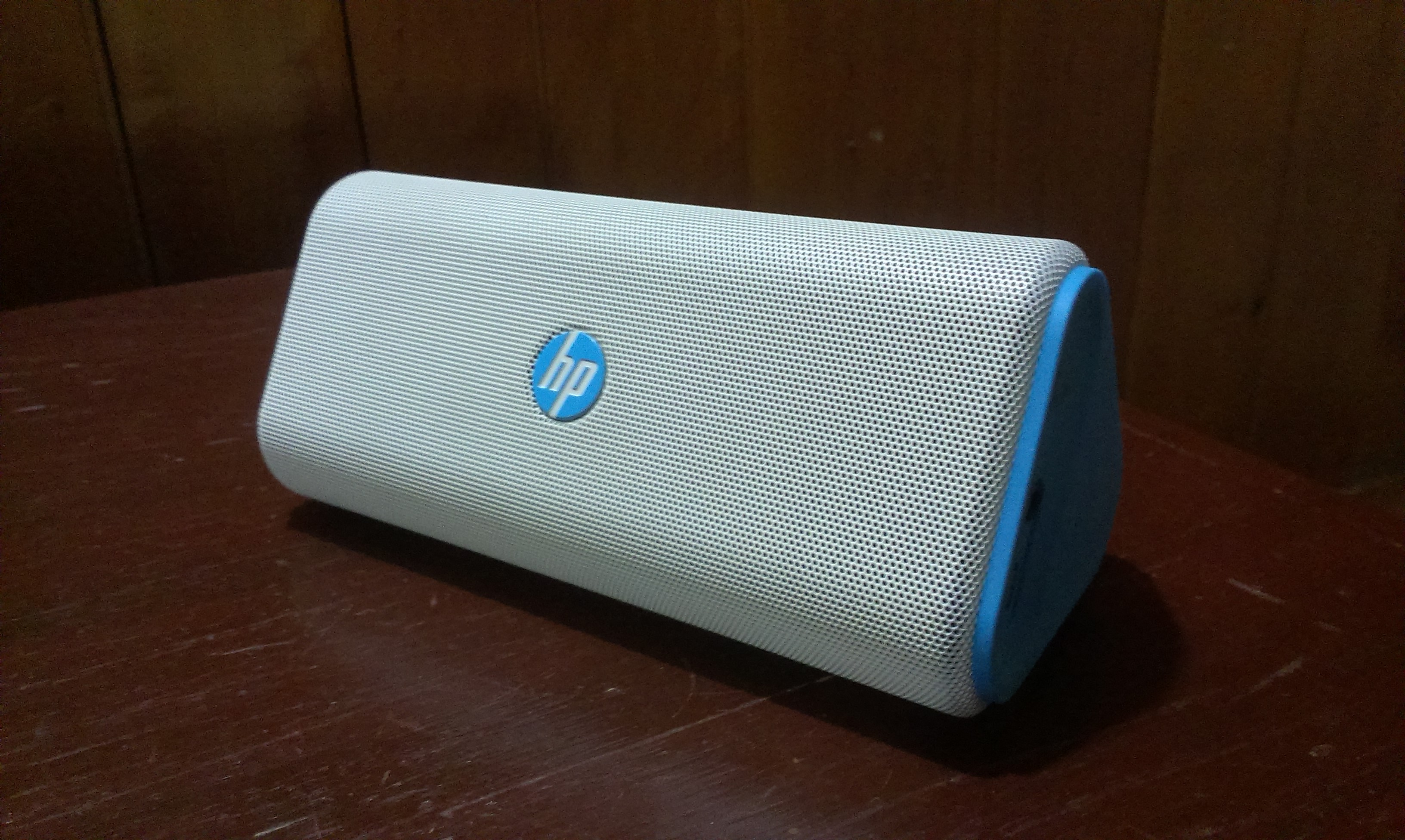 HP Roar Wireless Speaker RMN/Model no. HP SR7250 Spare Part no. 753828-001 Serial No: 8CE43009XQ